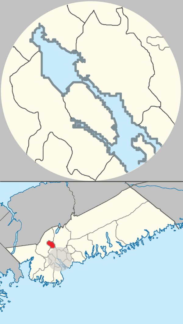 Updated map of Sackville plannign area in Halifax, Nova Scotia to standard colours, higher resolution, using